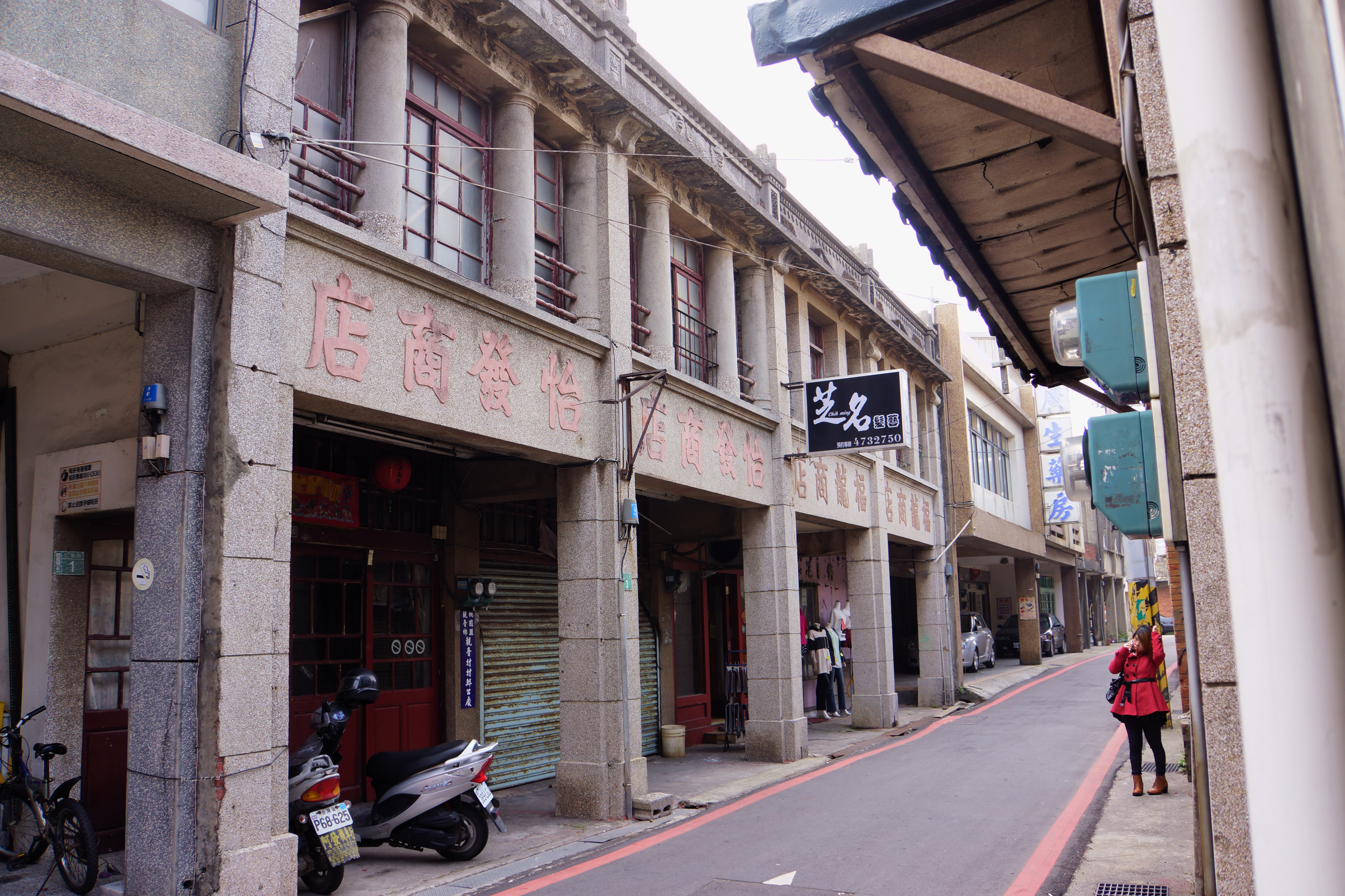 觀音老街 Quanyin Old Street